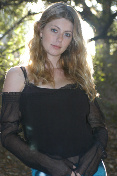 Diora Baird on the set of "Brain Blockers" Spanneraol took this photo himself while working on the film.